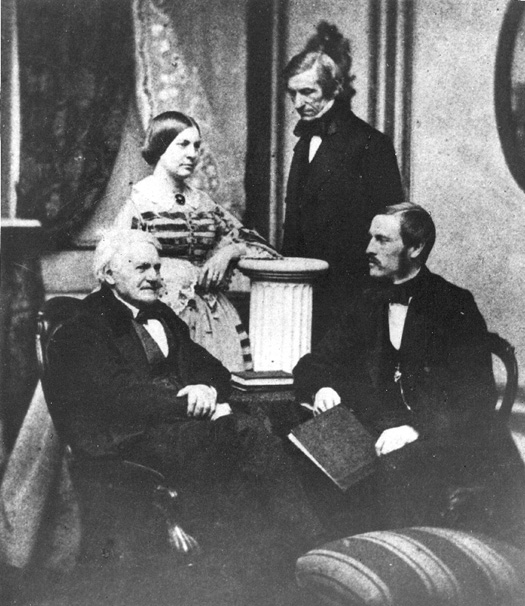 Picture of James Savage and Son James Savage Jr. with Daughter Emma and husband William Barton Rogers